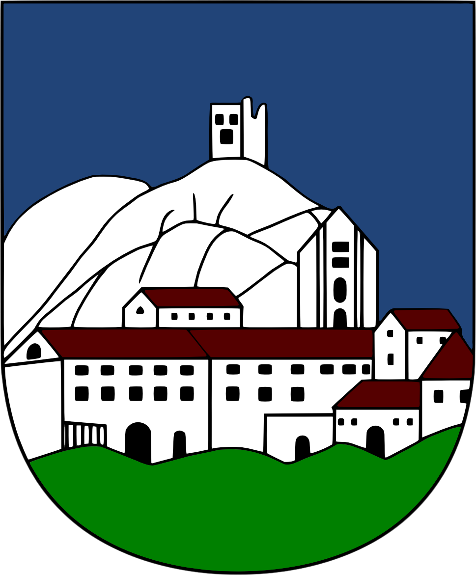 Coat of arms of Cetinje. Was in use before the World War 2.